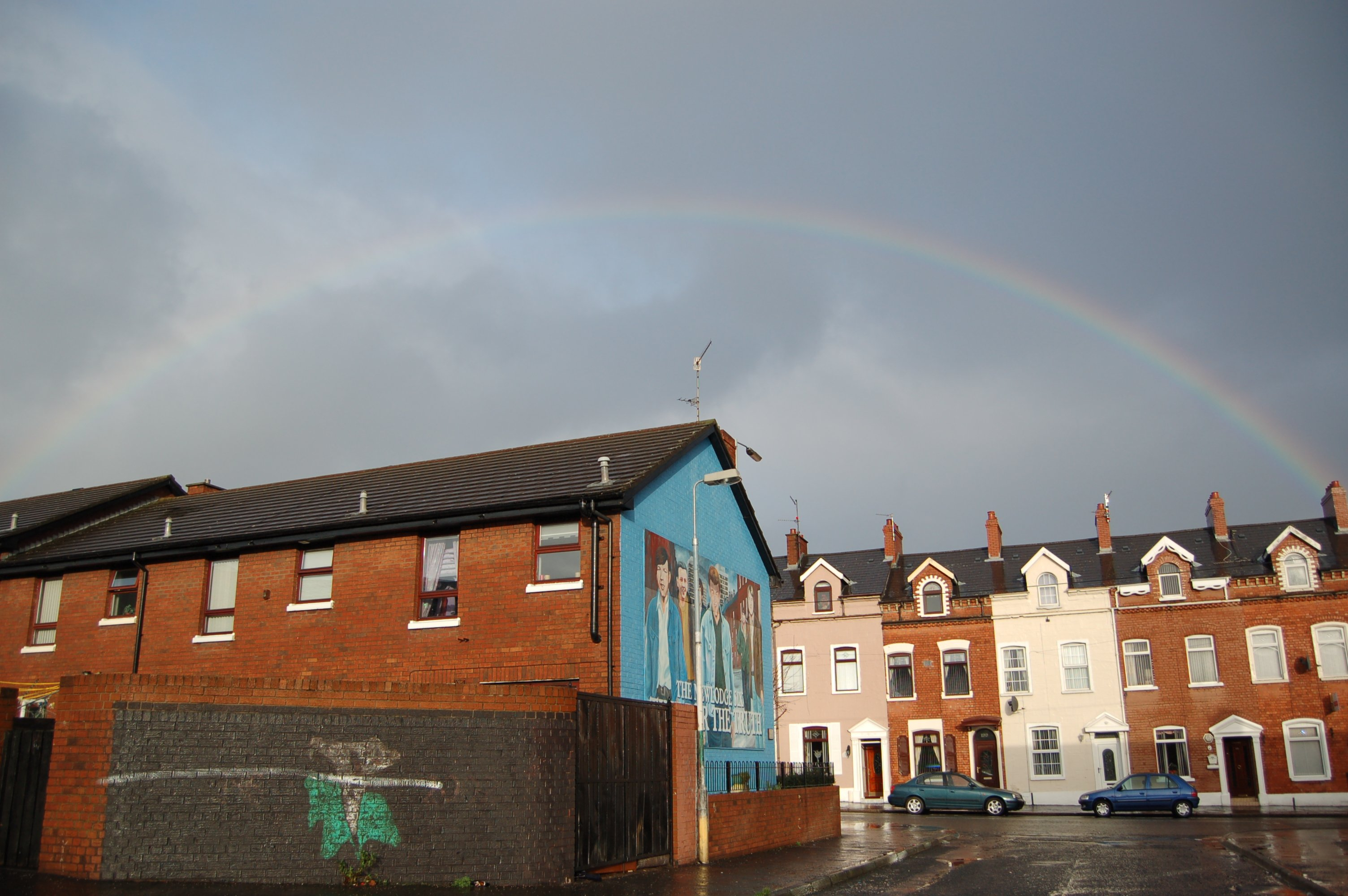 (C), 2005, Gerry Lynch. Rainbow over Donore Court in the New Lodge area of North Belfast, along with Republican murals.